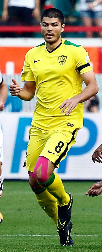 Arsen Khubulov with FC Anzhi Makhachkala in a game against FC Lokomotiv Moscow.